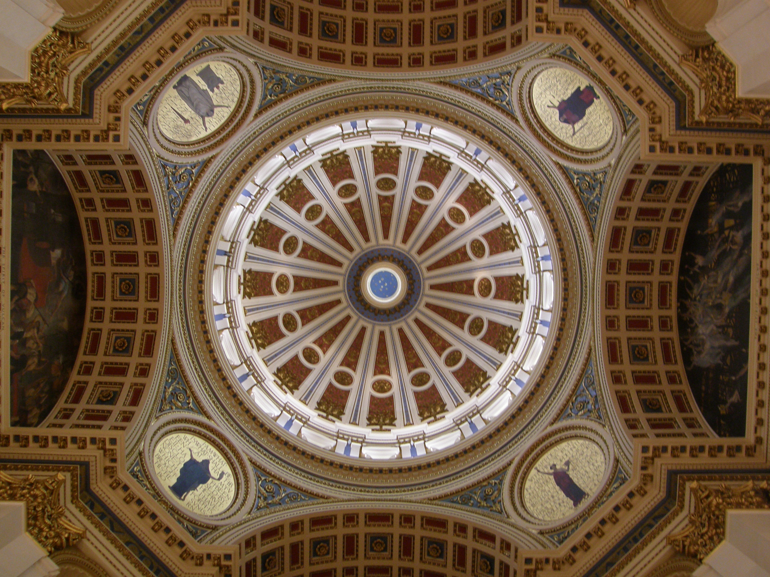 The rotunda of the Pennsylvania State Capitol, with paintings by Edwin Austin Abbey